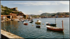 Example of a 16:9 aspect ratio